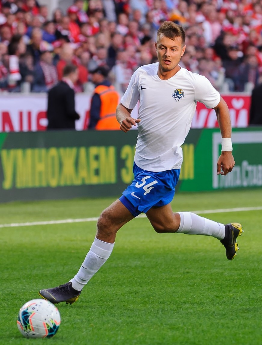 Timofei Margasov with PFC Sochi in a game against FC Spartak Moscow.